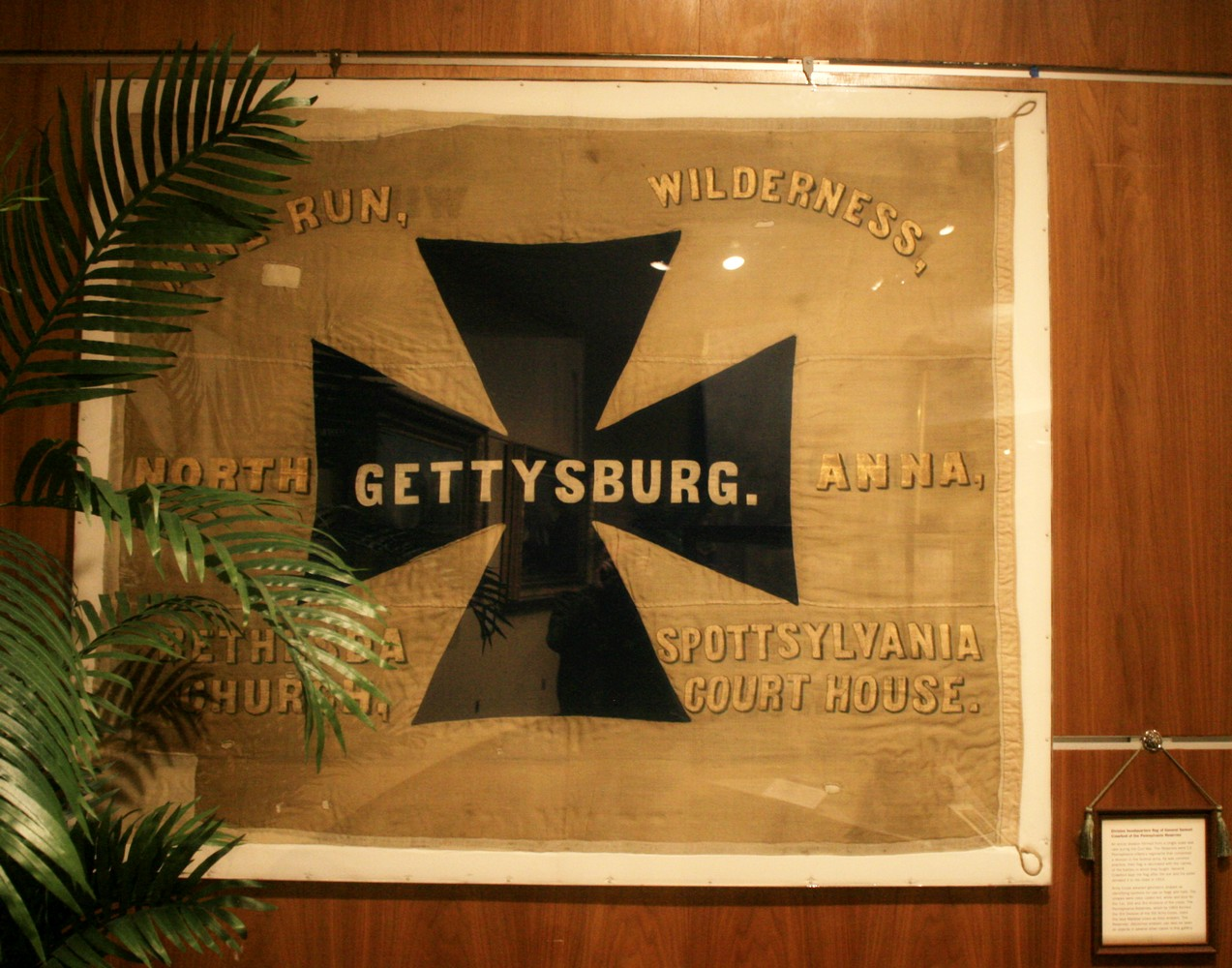 Division headquerters flag of Pennsylvania Reserves in the State Museum of Pennsylvania